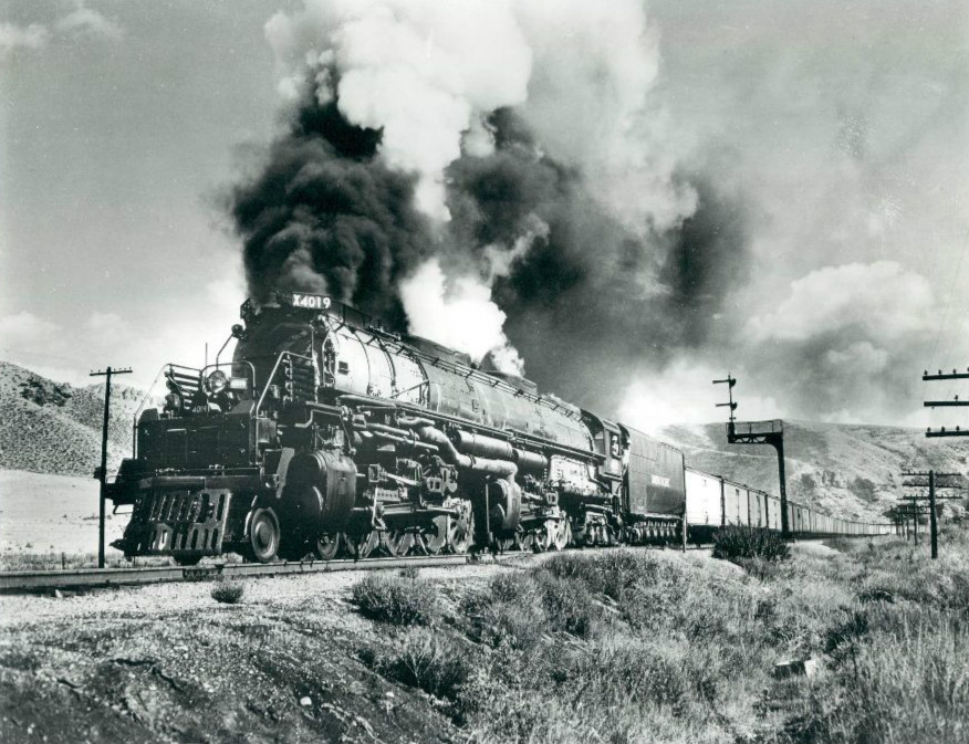 Photo of Union Pacific Railroad's "Big Boy" #4019 in Echo Canyon, Utah.